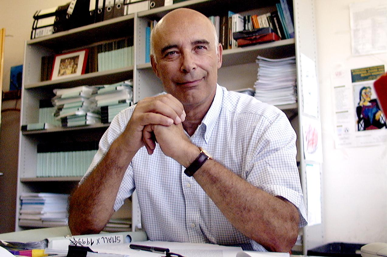 Professor Guido Altarelli, here seen in his office, was Division Leader for Theoretical Physics (TH) at CERN from 01.07.00 - 30.06.03.